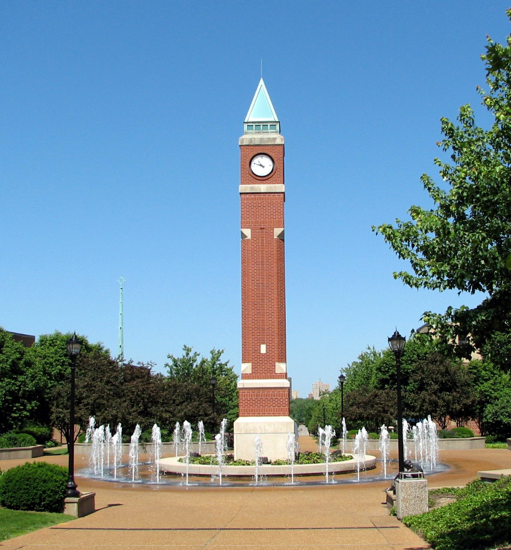 Saint Louis University clock tower on the central mall.